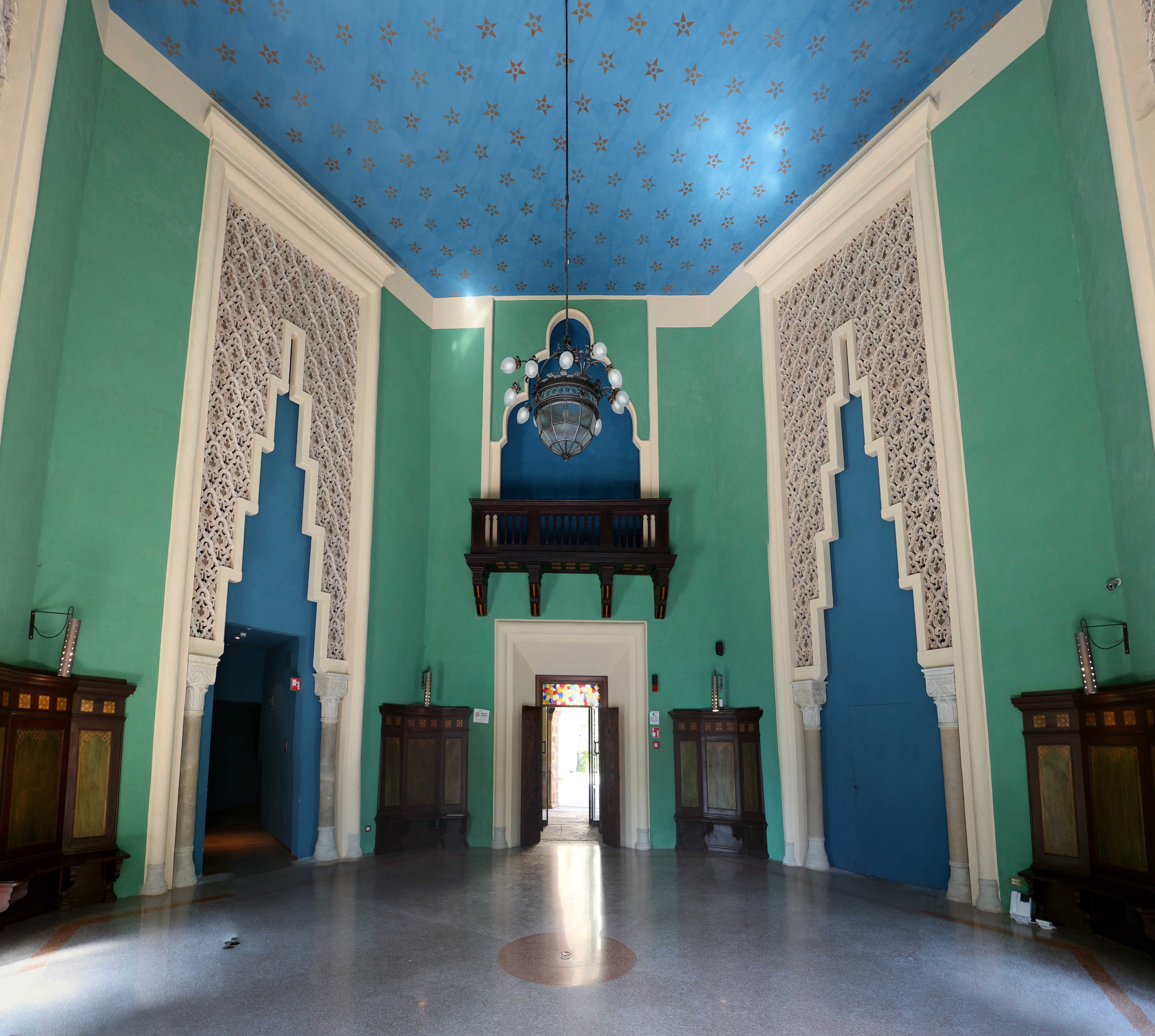 Rocchetta Mattei - Interior